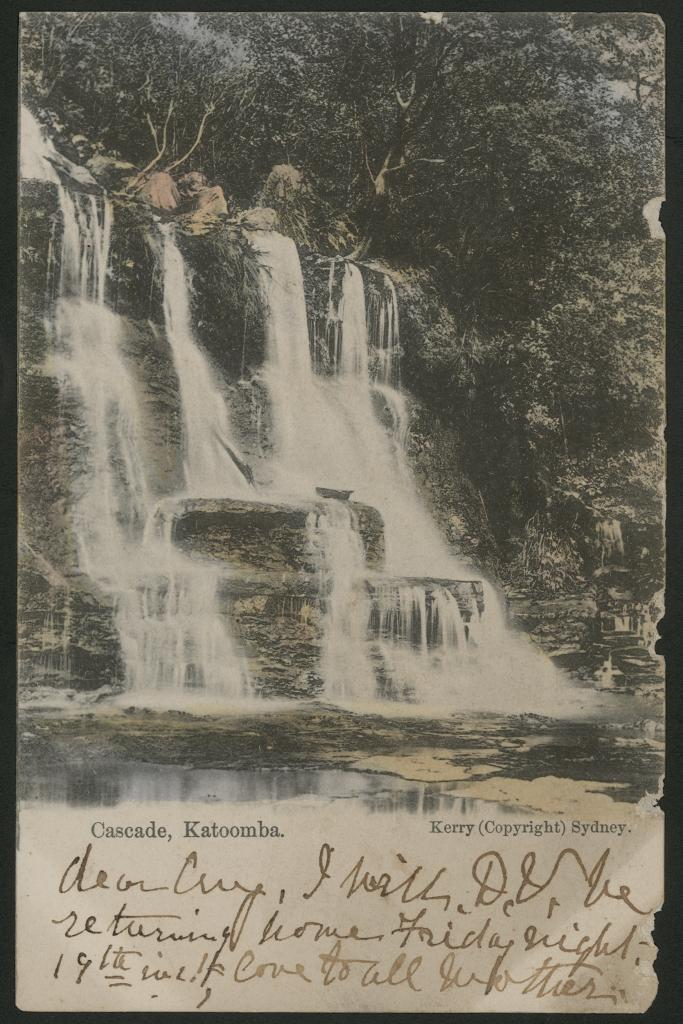 Format: Postcard, photo mechanical print. Part Of: Powerhouse Museum Collection General information about the Powerhouse Museum Collection is available at Persistent URL: Acquisition credit line: Gift of Elizabeth Bullard, 1967